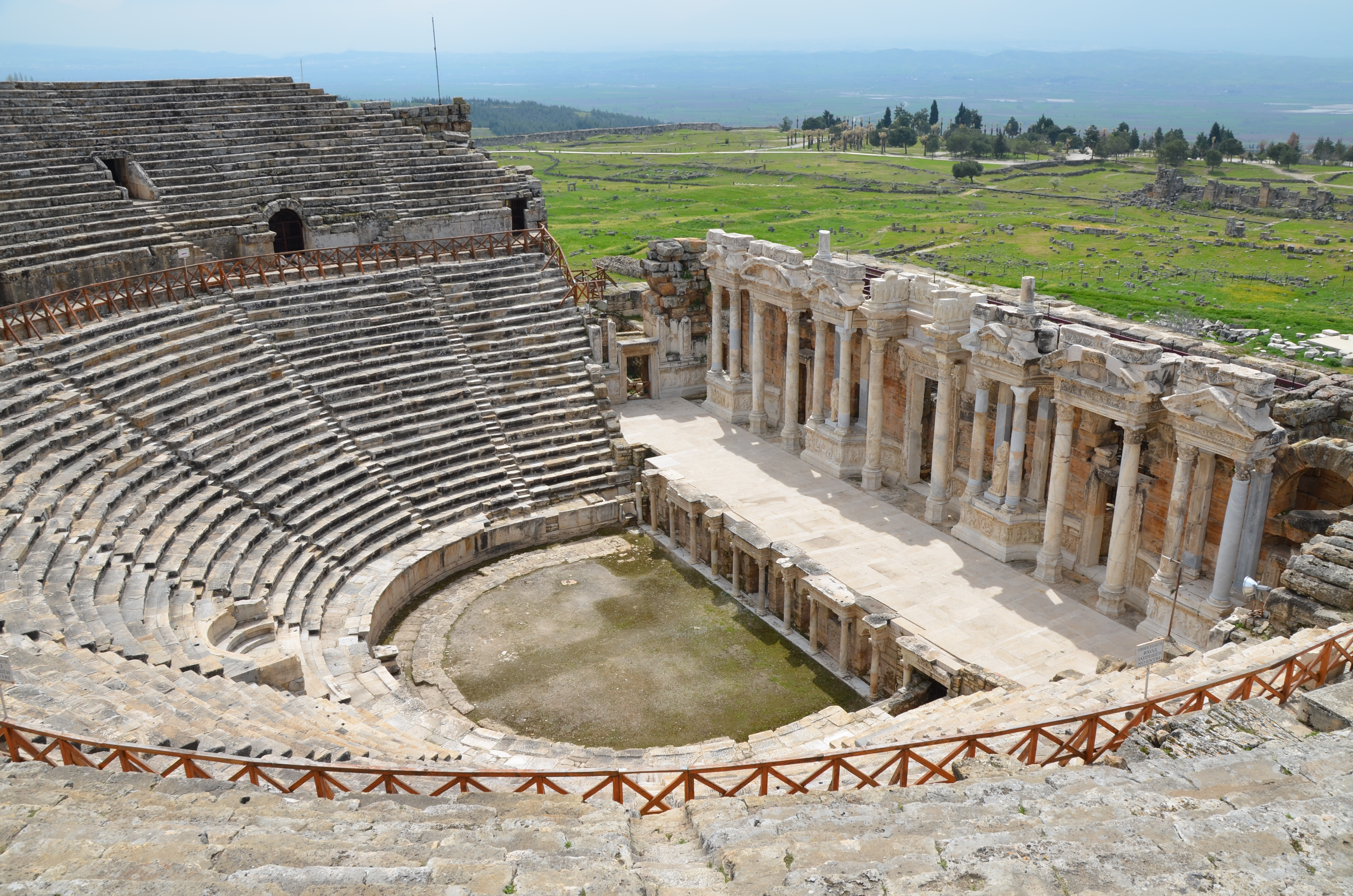 The 2nd century AD was a period of extensive rebuilding following a devastating earthquake in 60 AD.